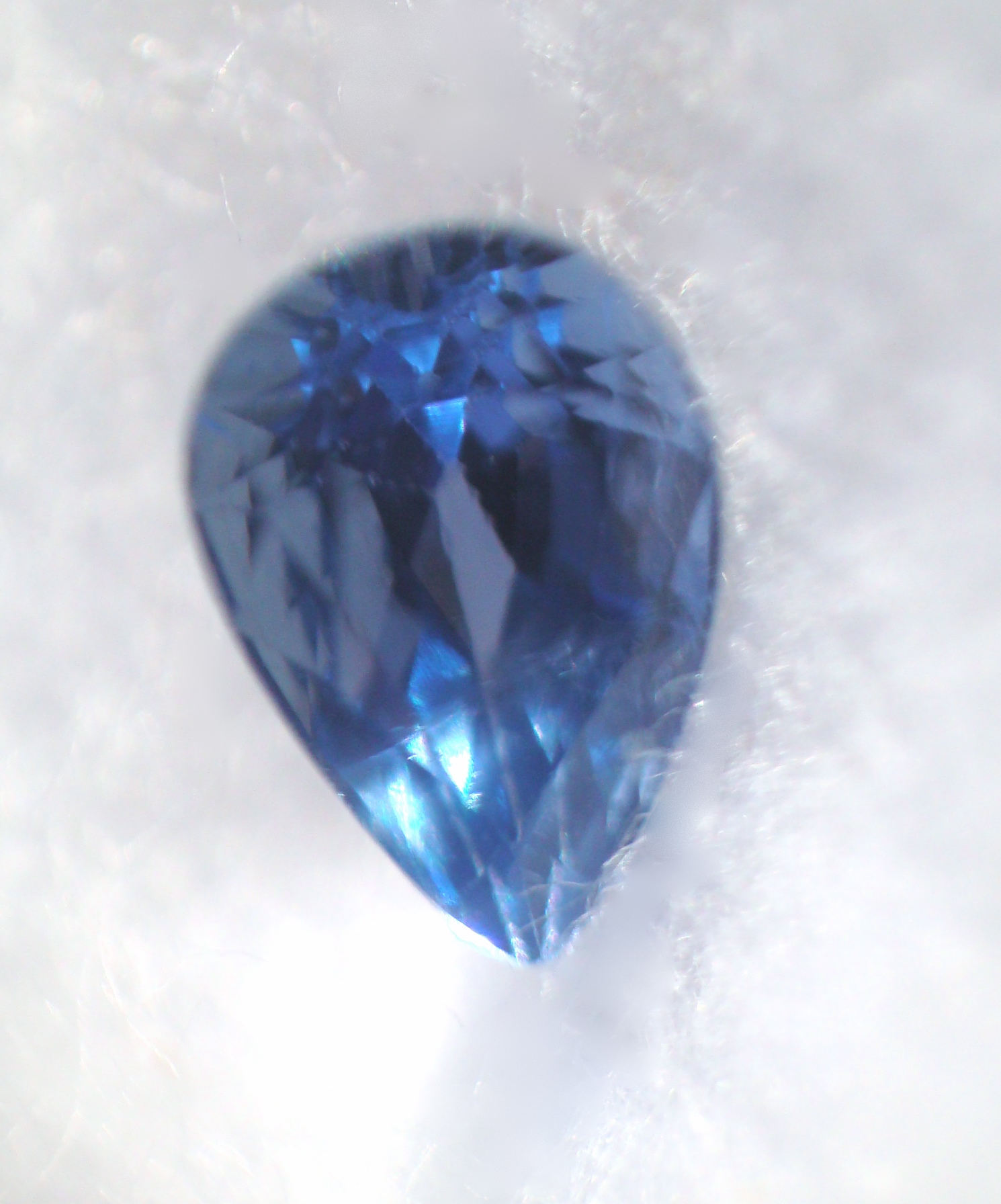 0.43 carat, high quality, cornflower blue Yogo sapphire from Yogo Gulch, Montana. This gem is cut in the pear shape.